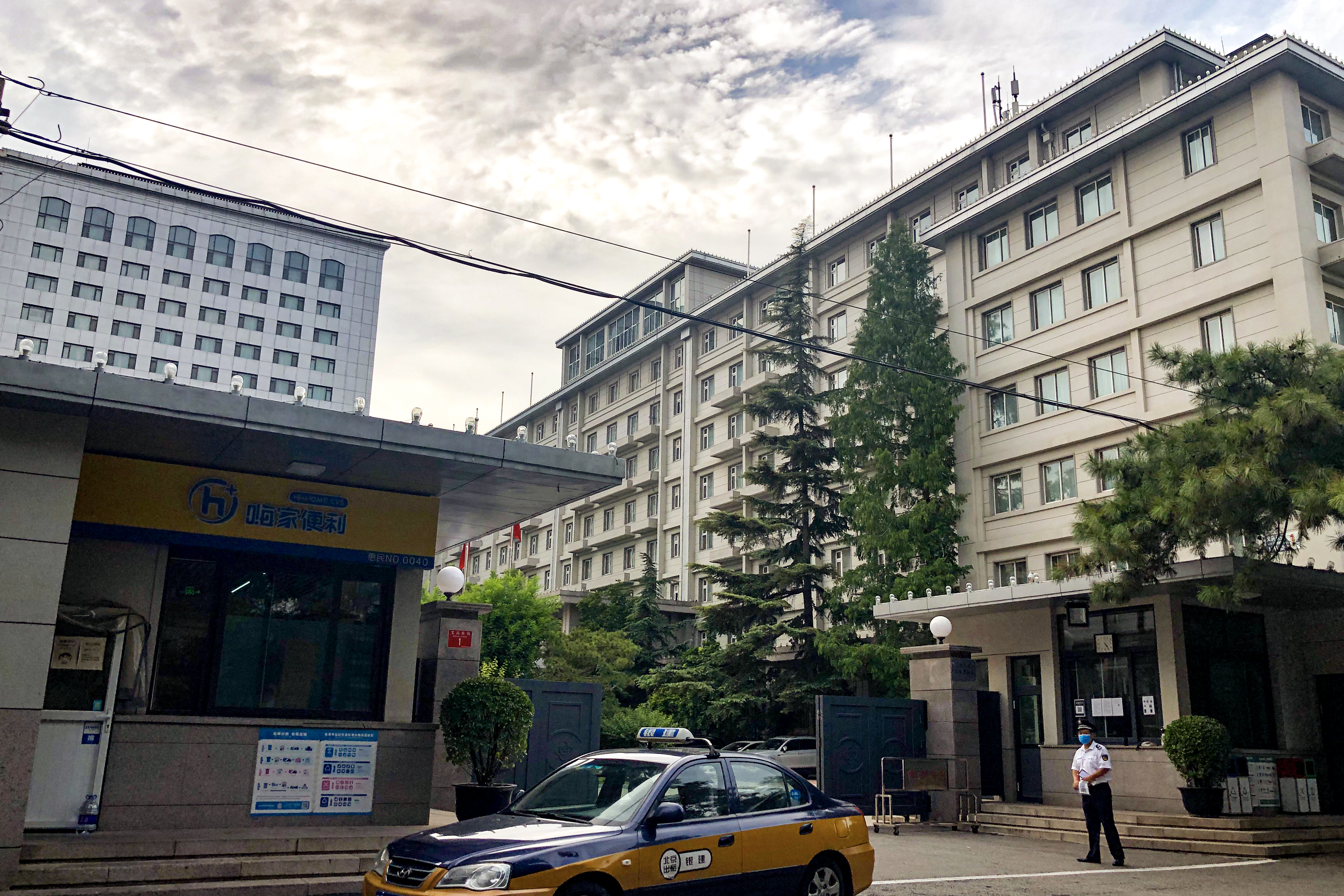 Built in 1959.